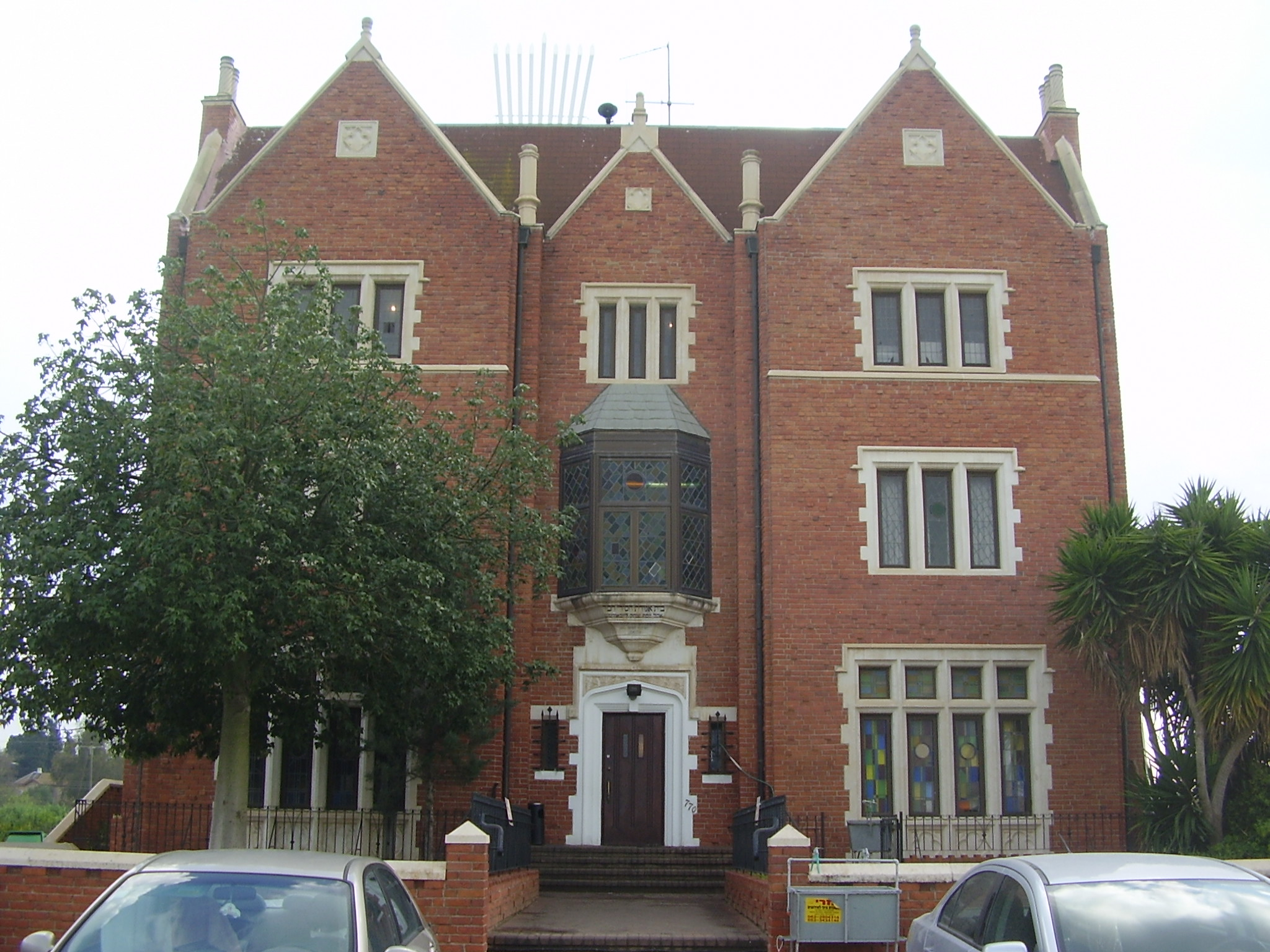 Habad Headquarters in Kfar Habad, Israel